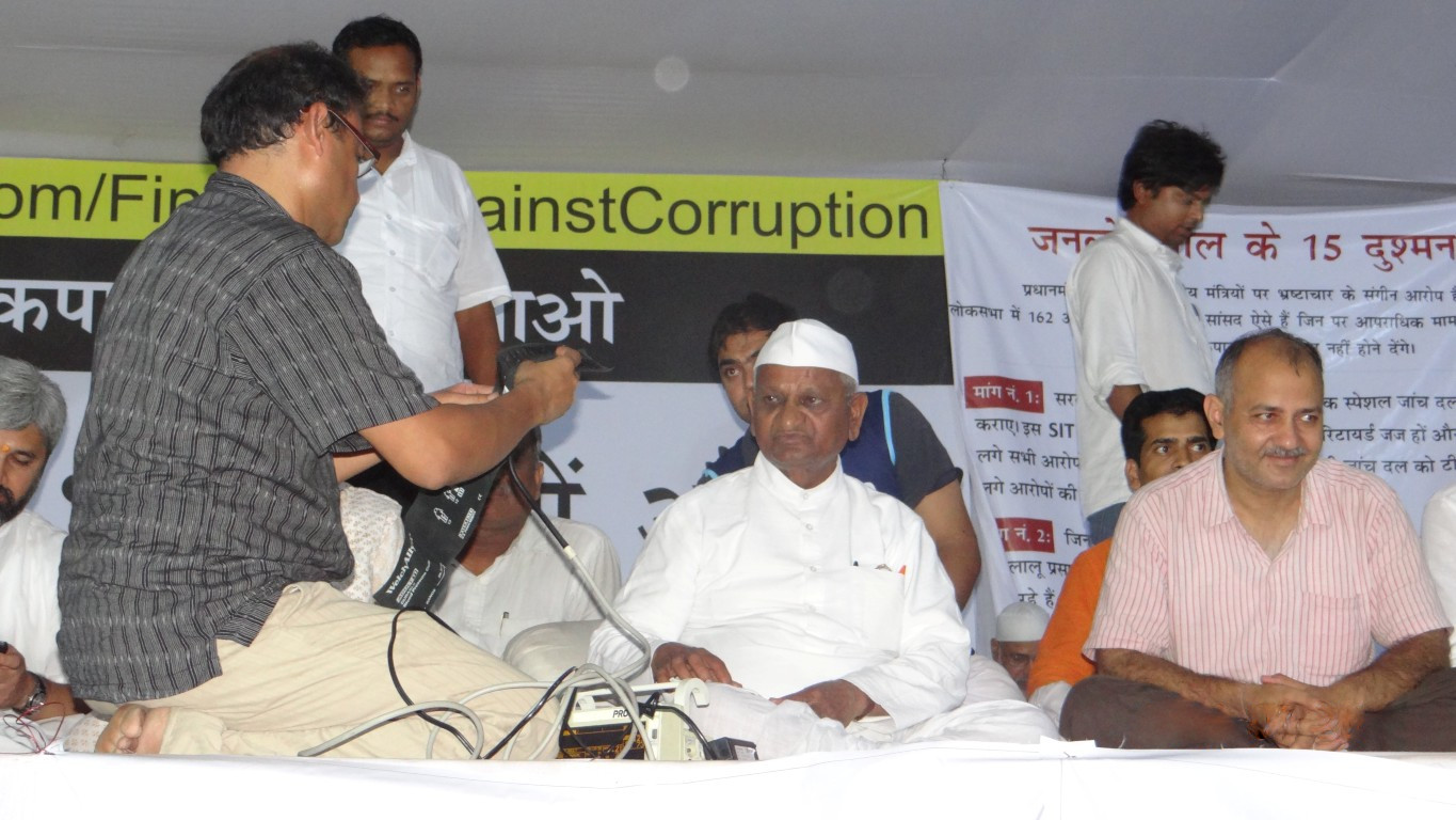 Anna Hazare with Manish Sisodia during Janlokpal movement.